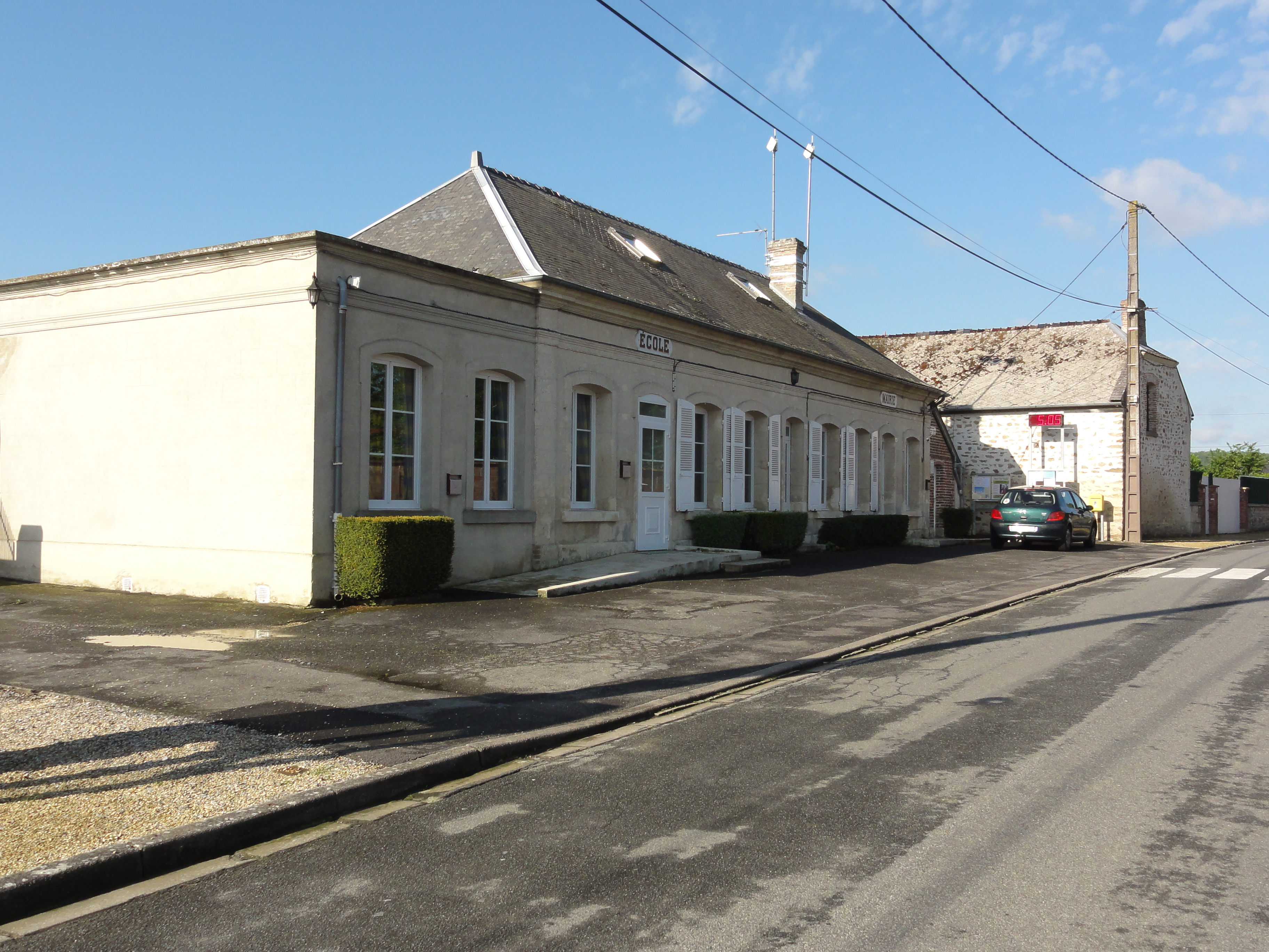 Cerny-lès-Bucy (Aisne) mairie - école